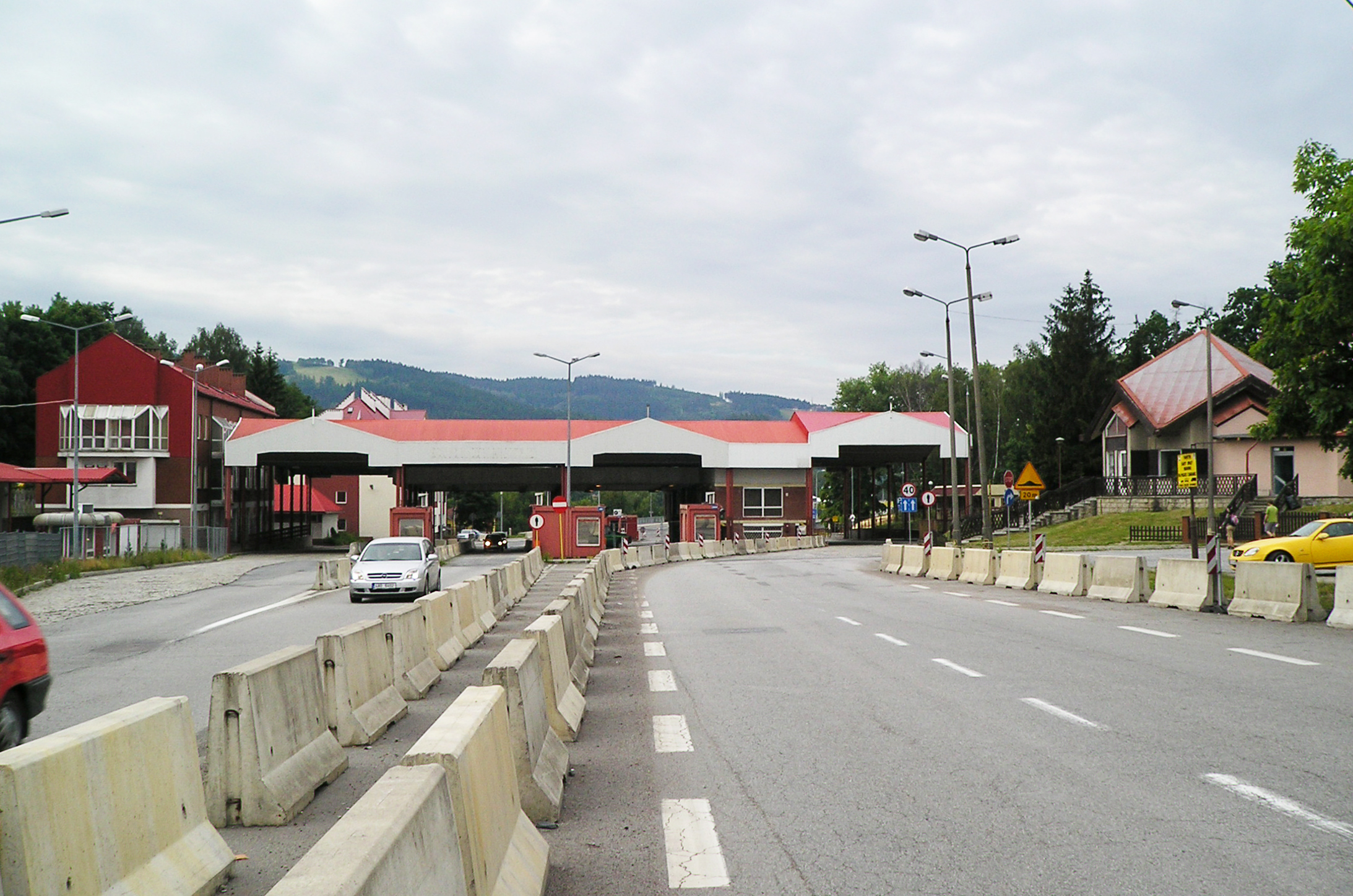 Former Border Checkpoint Kudowa-Słone (PL) – Náchod (CZ), 2008